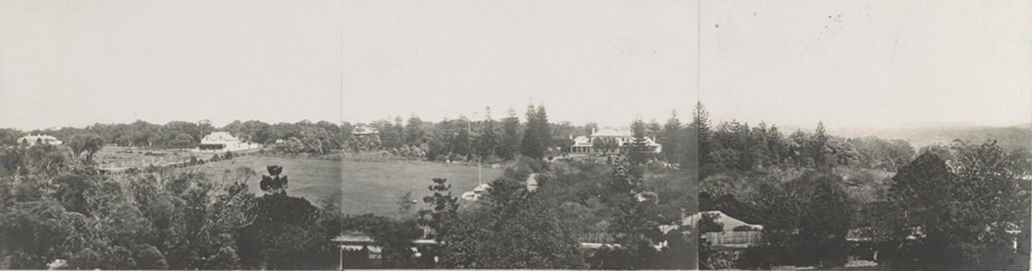 Toxteth Park, Glebe, NSW circa 1875 showing the private cricket ground and orchids.